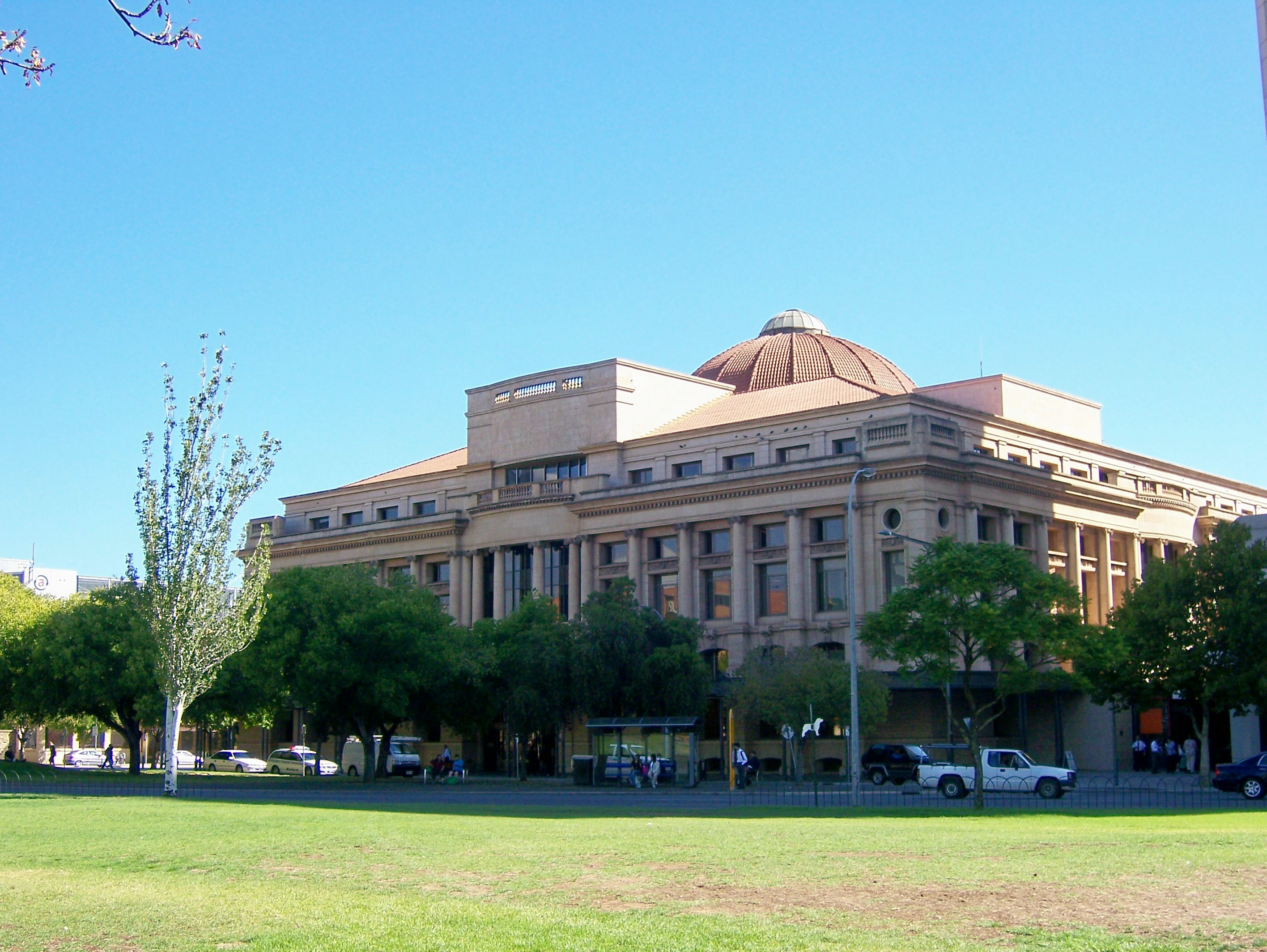 The Sir Samuel Way Building, housing the District Court of South Australia, as viewed from Victoria Square.